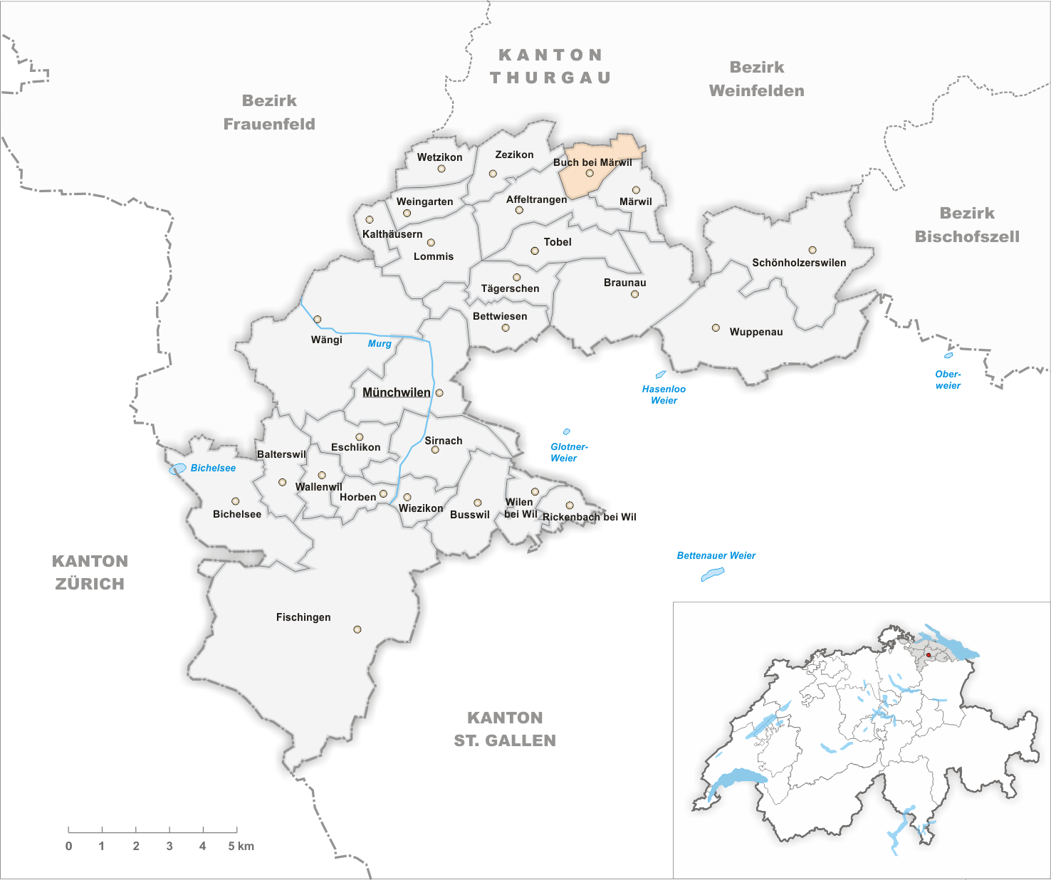 Municipality Buch bei Märwil